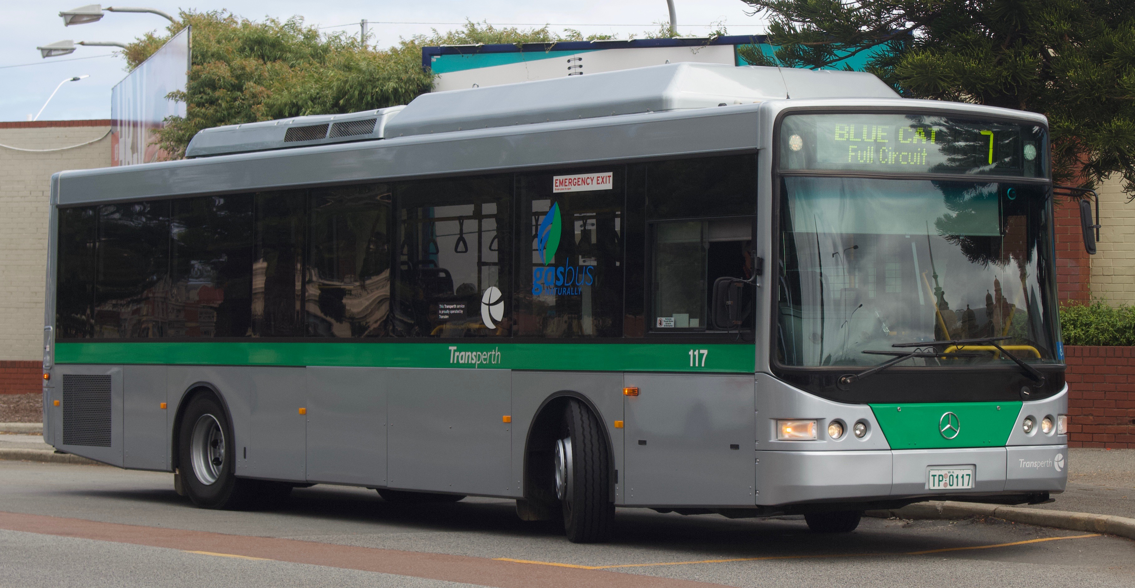 Volgren CR228L on Mercedes-Benz OC 500 LE CNG (#117, TP0117, built 2006) operating a blue CAT. Transperth livered buses are allowed to operate CAT routes when deemed necessary.